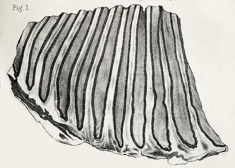 Holotype molar of Mammuthus columbi.